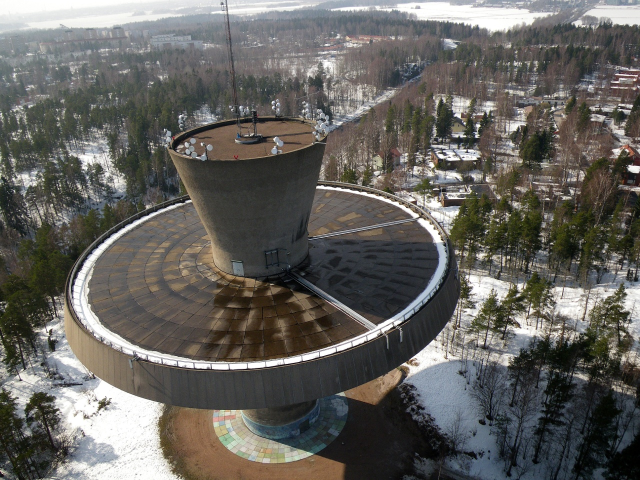 Aerial photograph of Myllypuro water tower in Helsinki